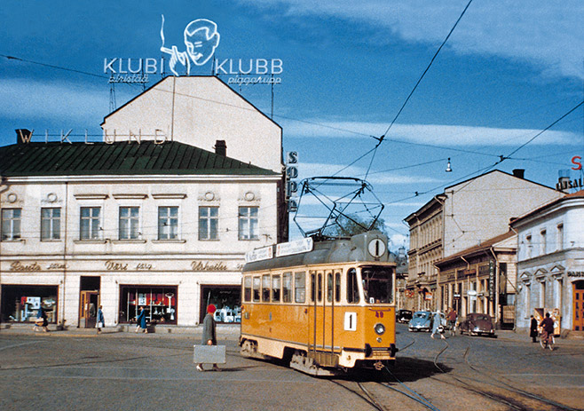 Valmet RM 2 tram no. 49 on line 1 in Kauppatori, Turku, Finland in 1959. It is turning from southeastwards to southwestwards, from Köpmansgatan onto Eriksgaten.